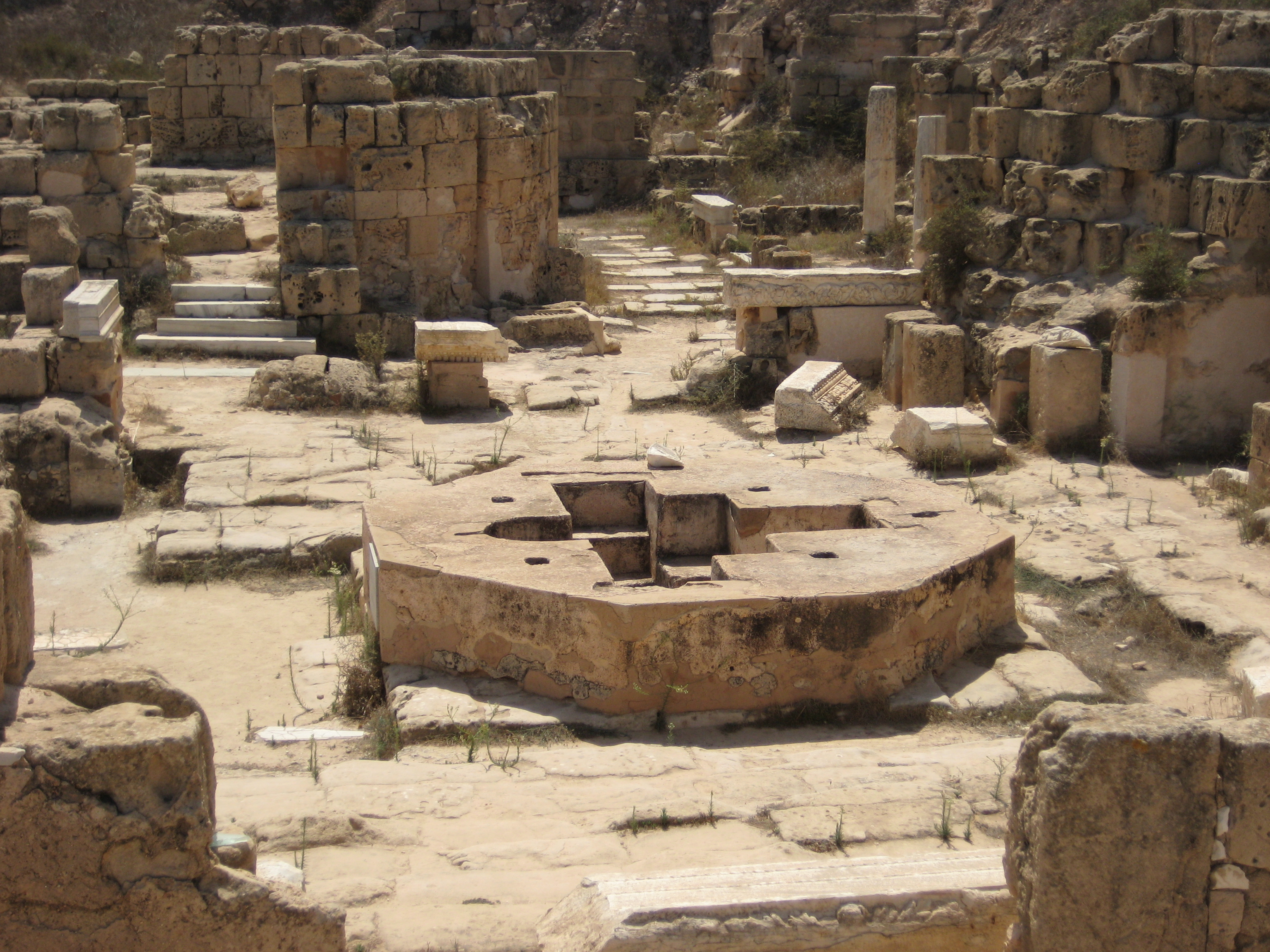 Basilica of Apuleus, Byzantine baptistery, Sabratha,Libya